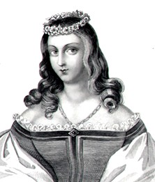 Imaginative depiction of Birutė.